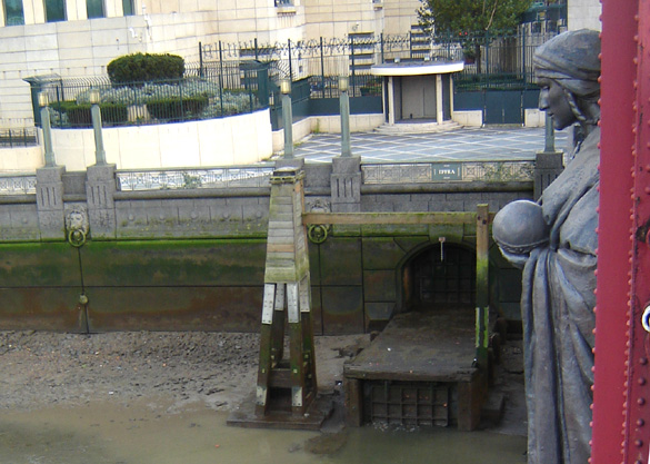 Effra ditch/stream now combined sewer storm outlet, Vauxhall, London. 29 October 2005. Photographer: Fin Fahey